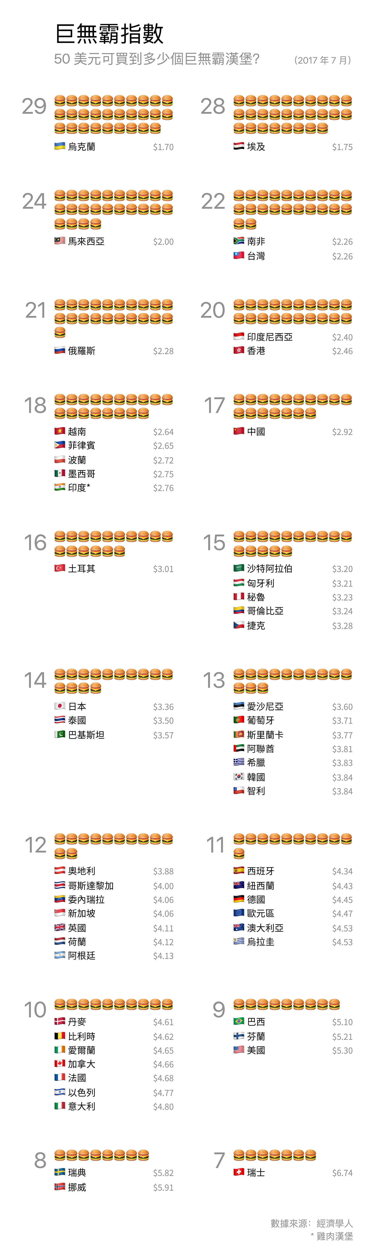 Illustration of The Economist's Big Mac Index. Based on July 2017 data ( Inspired by Antti Vuorela's illustration.